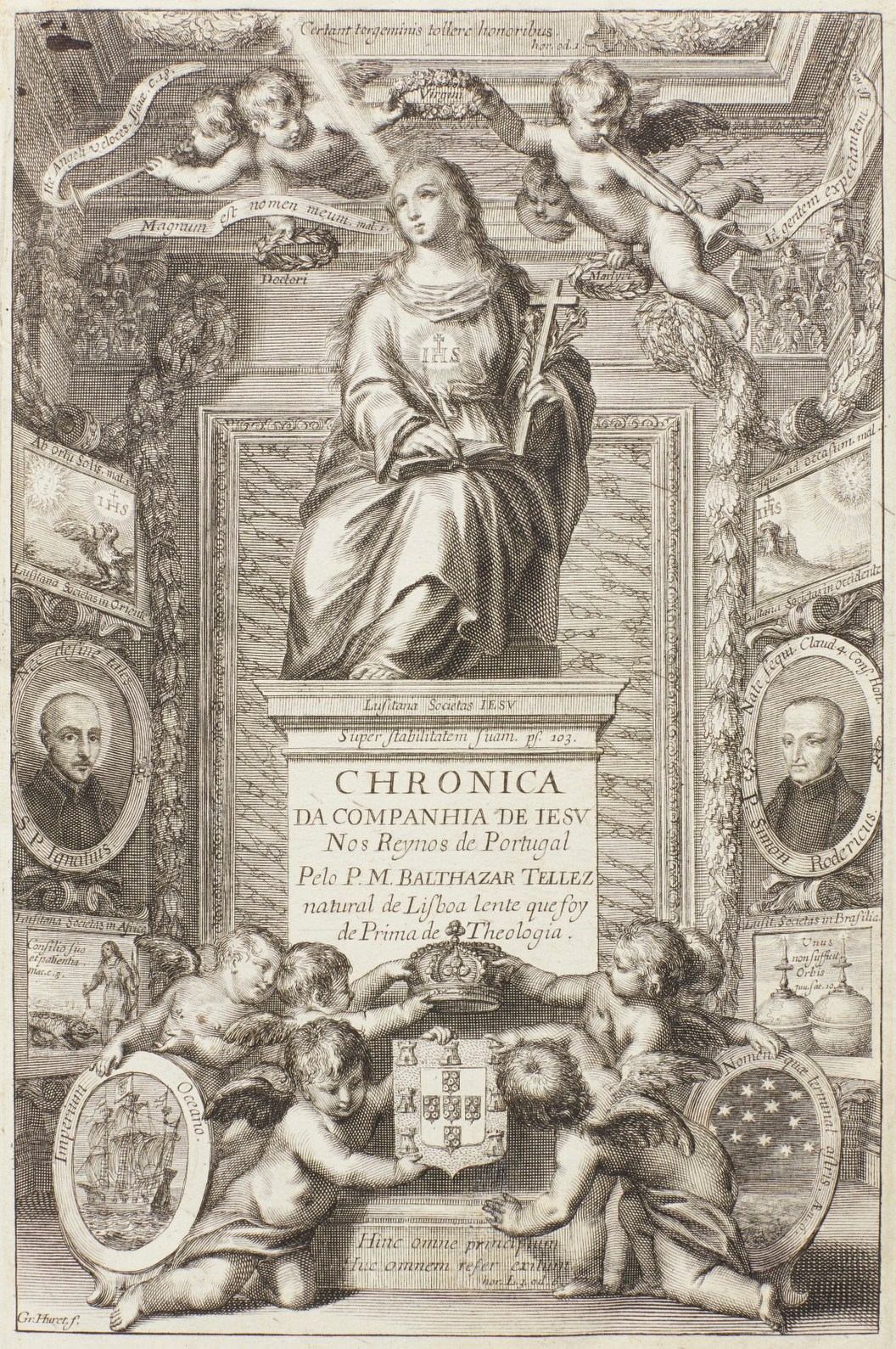 Frontispiece of the Chronica da Companhia de Iesv nos Reynos de Portugal ("Chronicle of the Company of Jesus in the Kingdom of Portugal"), by Baltasar Teles, engraving by P. Craesbeeck, 1645-1647.